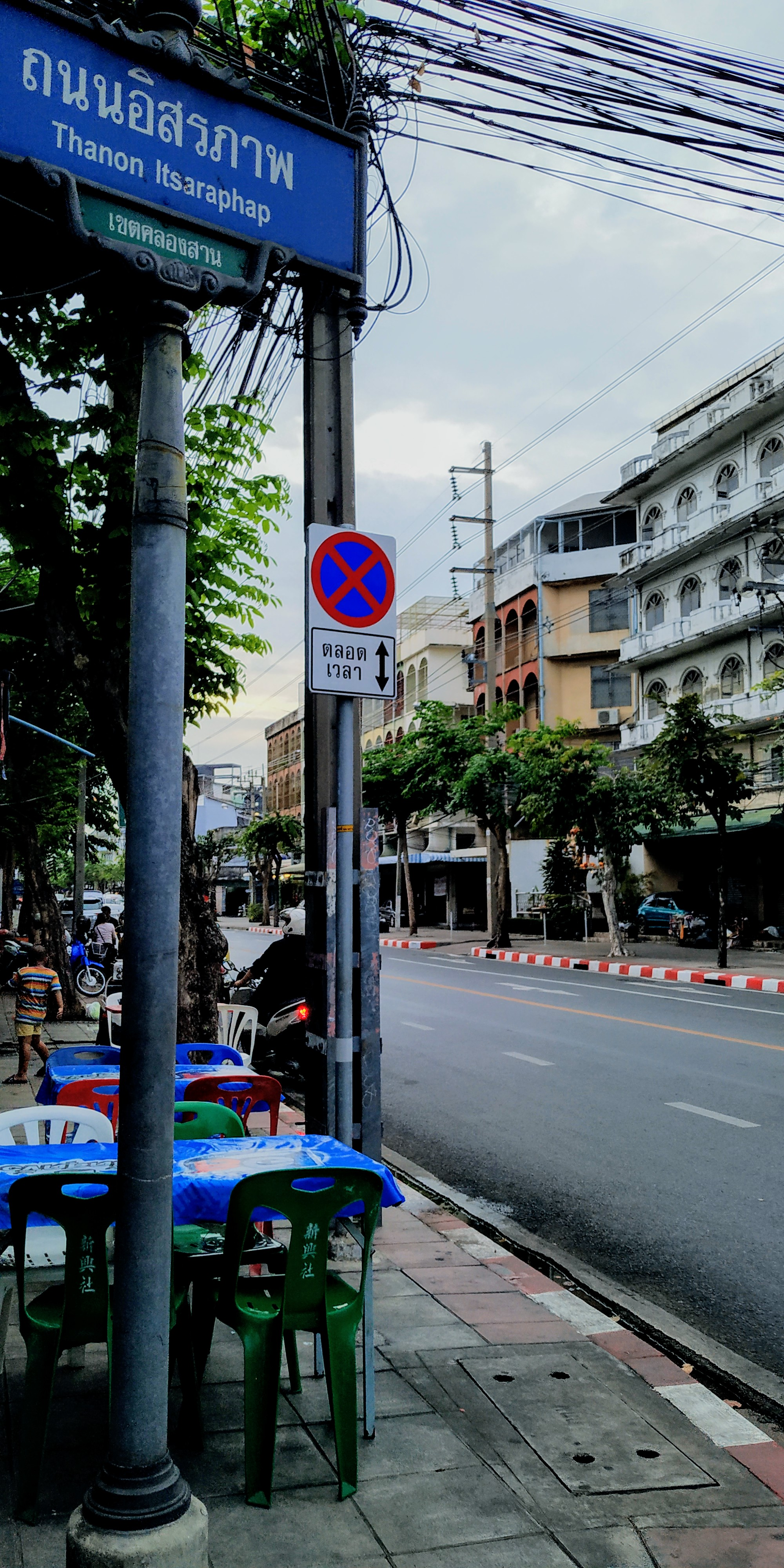 Israphap road (Sign at Lat Yaa intersection)